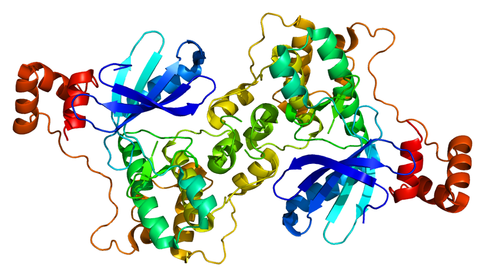 Structure of the MARK2 protein. Based on PyMOL rendering of PDB 1y8g.